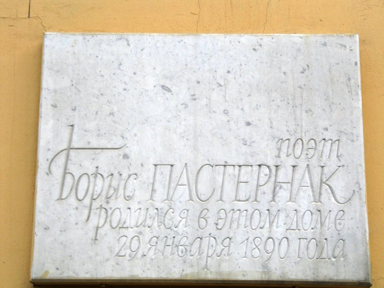 The memorial on the house, in which was born on January 29, 1890 the famous Russian writer, Nobel Prize-winning Boris Pasterna